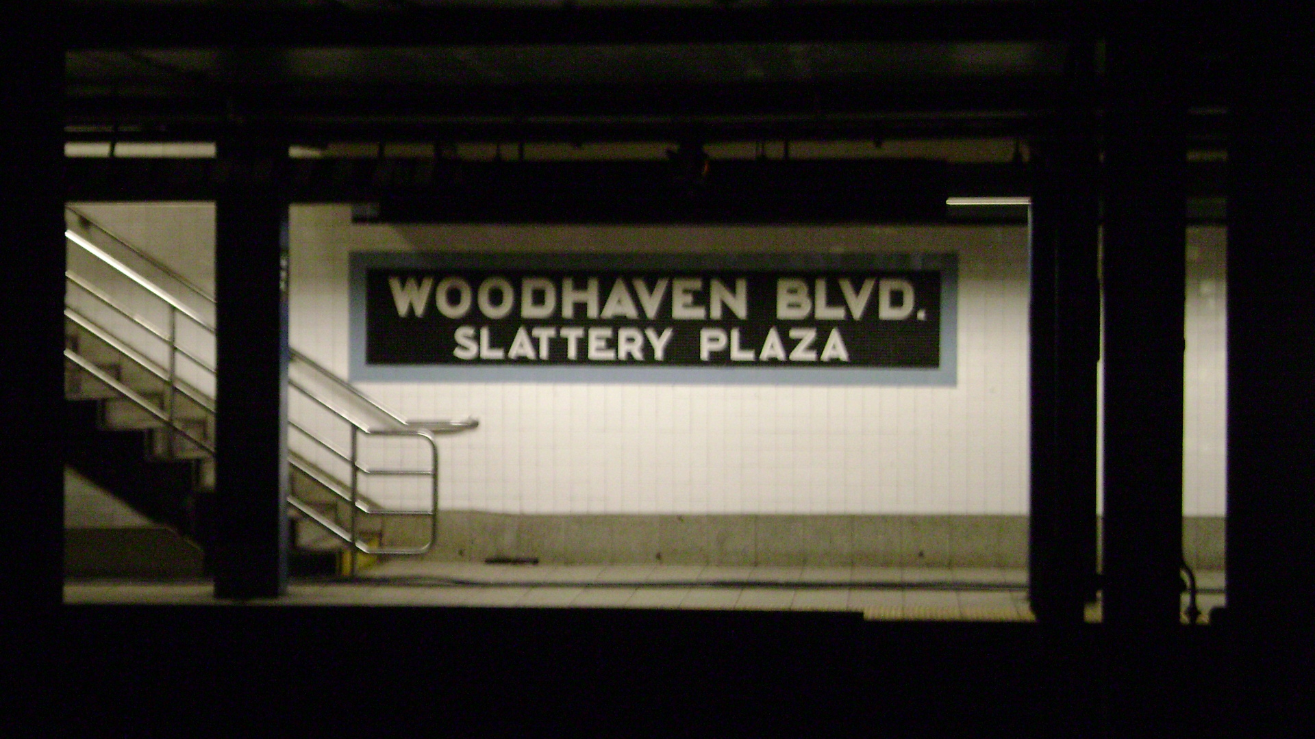 Looking across the tracks at Woodhaven Boulevard-Slattery Plaza. Taken from the Manhattan-bound platform, looking towards the Jamaica-bound one.